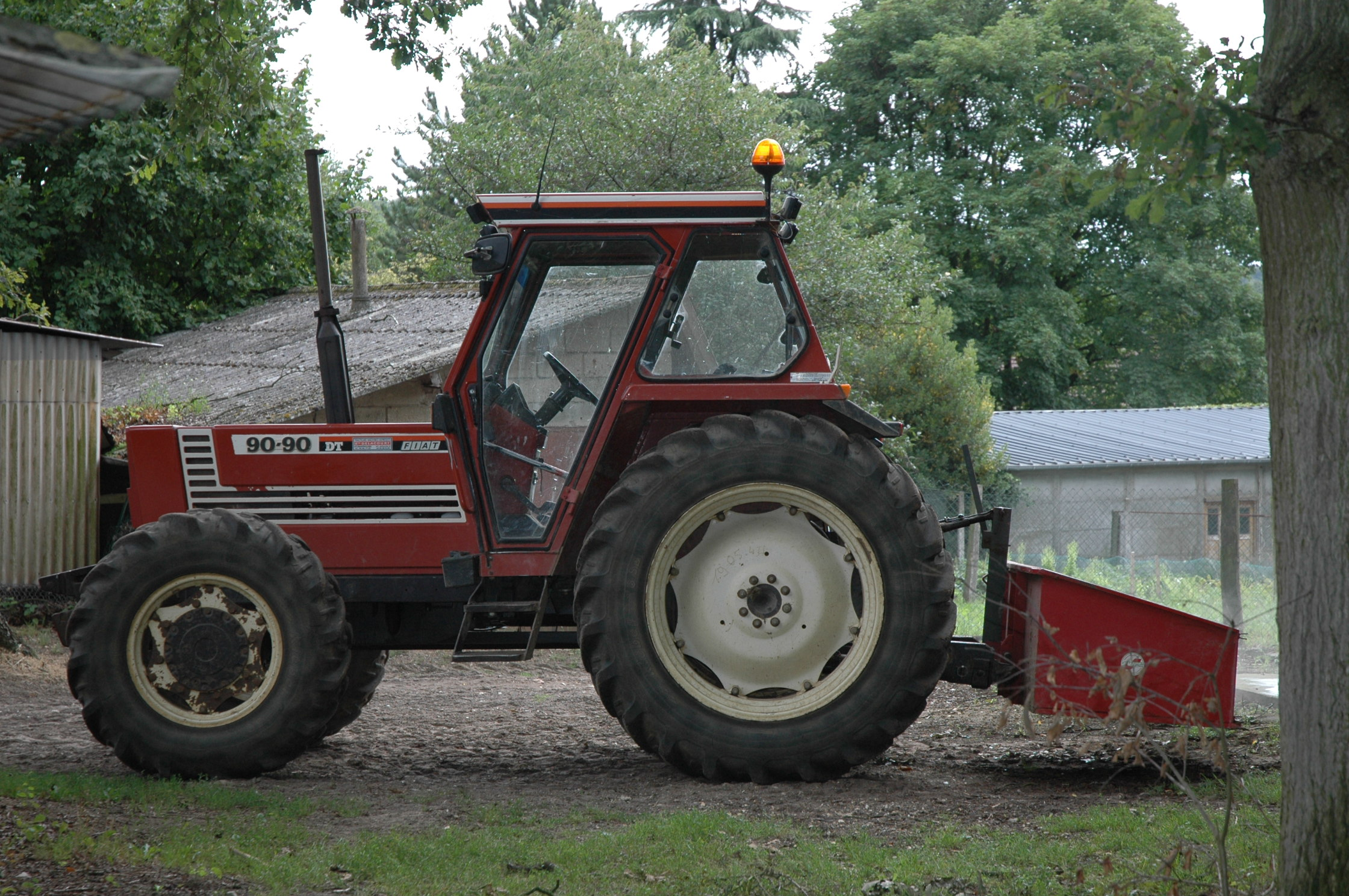 Fiat 90-90 DT tractor